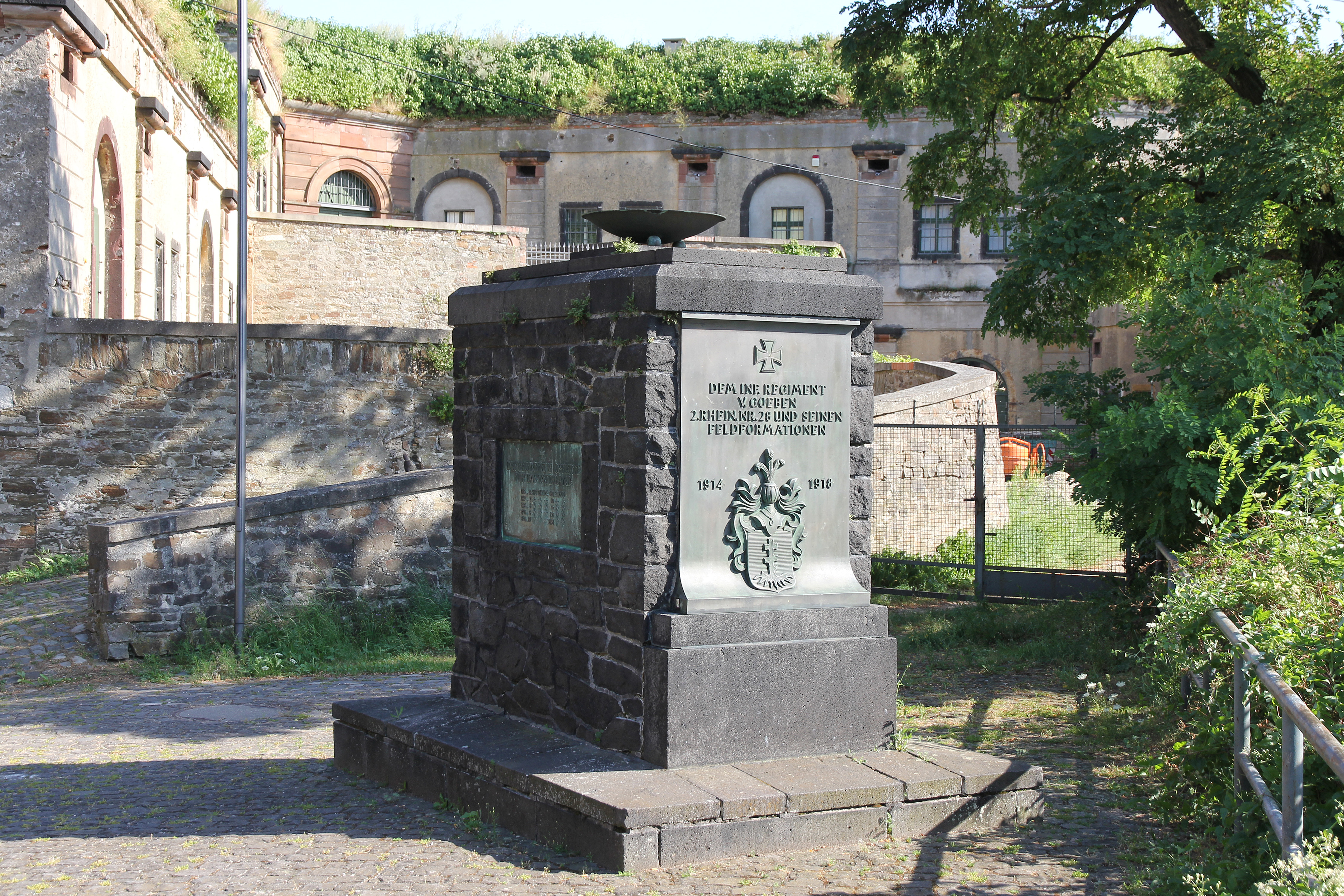 War memorial in Koblenz